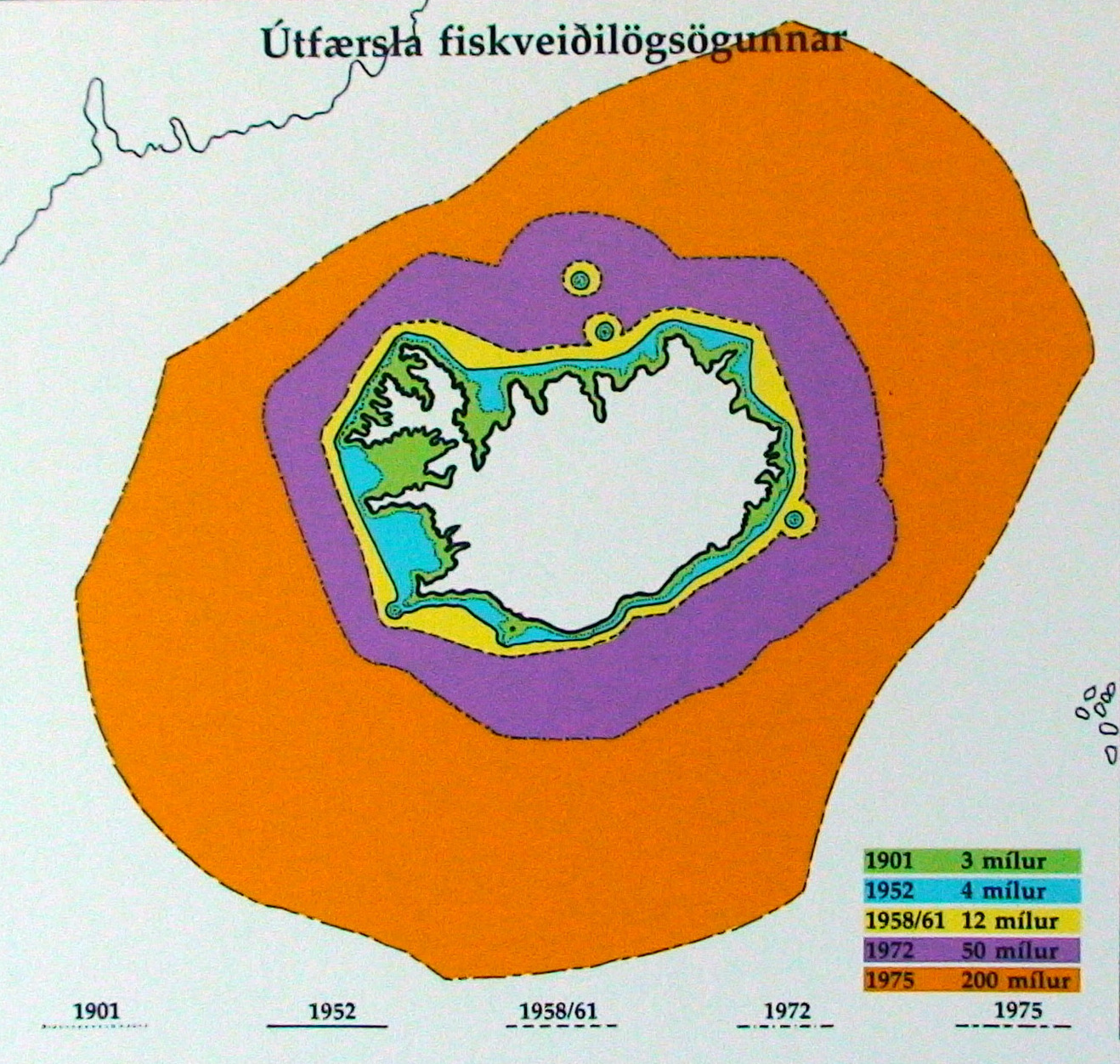 Icelandic fishing waters